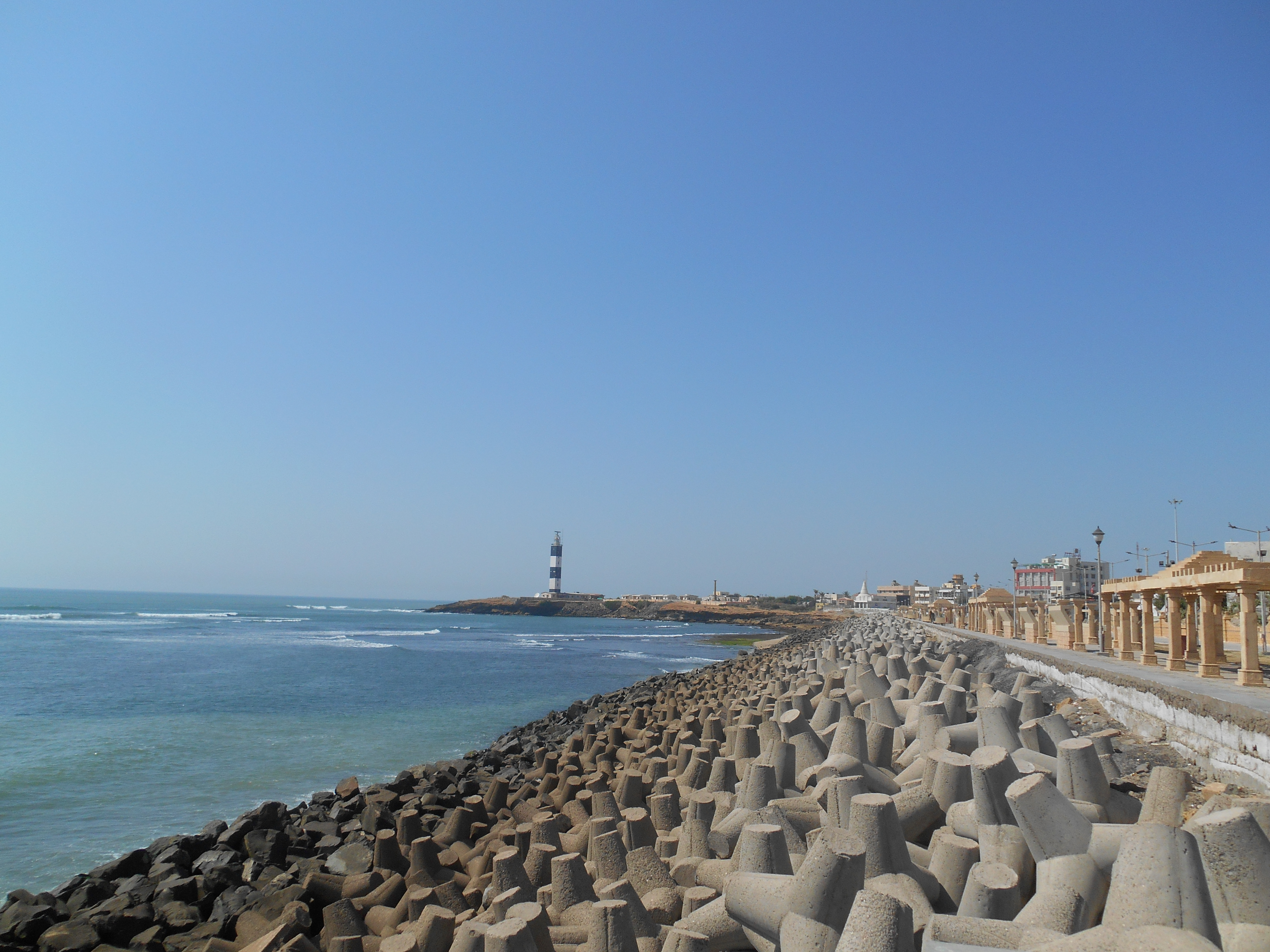 The Dwarka lighthouse is a 43 meter tower constructed in 1962. Even today this light house is a landmark for sailors and one can clearly see its powerful flashes in the evenings. Operational from 4 pm to 6 pm for visitors, the splendid architectural design of this structure is a visual treat to the eyes. From the top of the lighthouse, one can view a captivating, panoramic, 360-degree view of Dwarka City and the Arabian Sea.